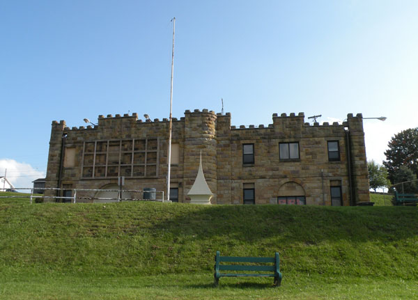 Picture of the Pump House in Monaca, Pennsylvania. One of the stones on the front of the building (the side facing the Ohio River) says the following: "Erected 1895. Reconstructed 1940. W.P.A. Project No. 21284."